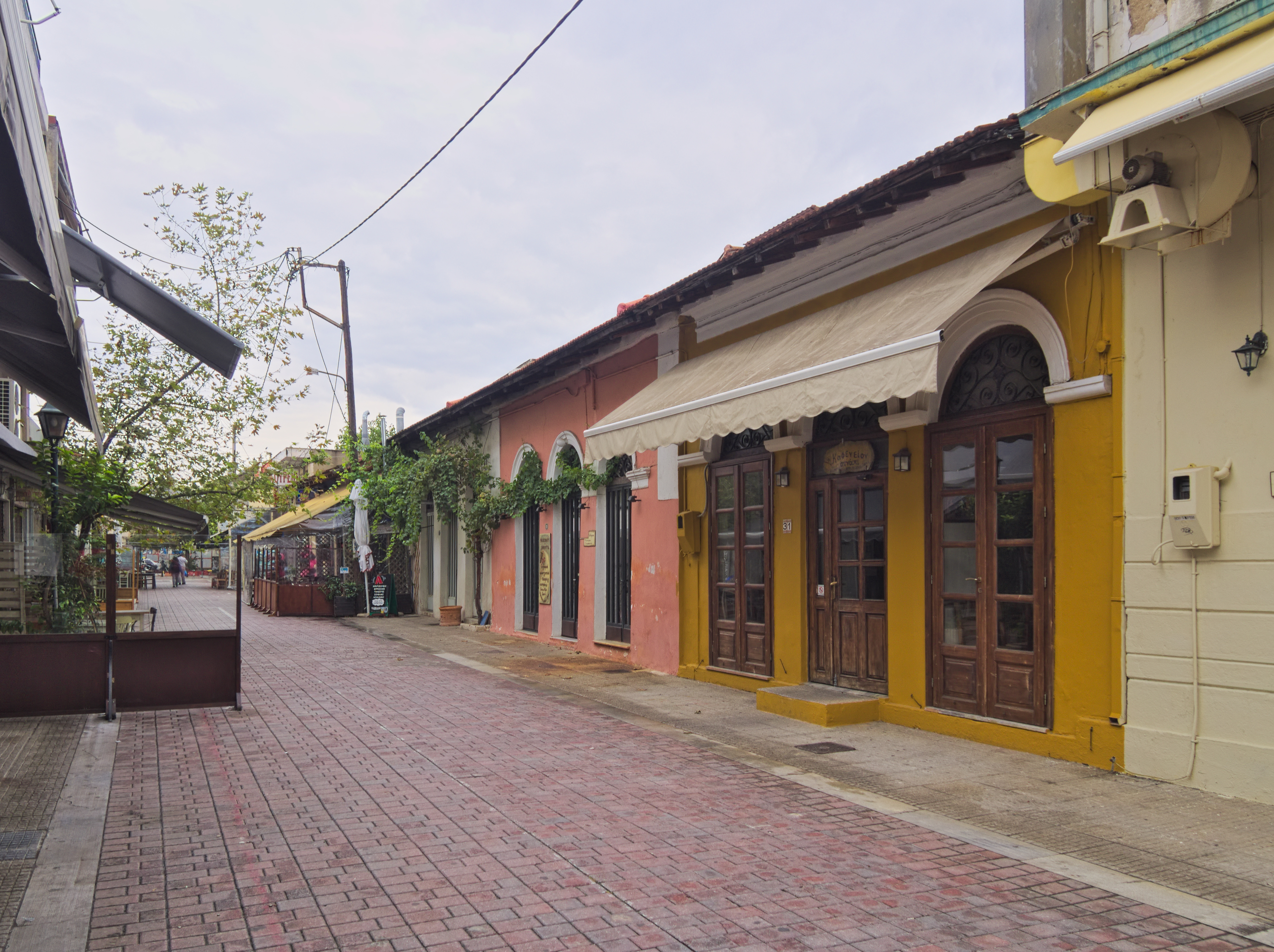 Shops at Krokiou street, at Palia quarter, Volos.